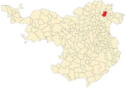 Garriguella